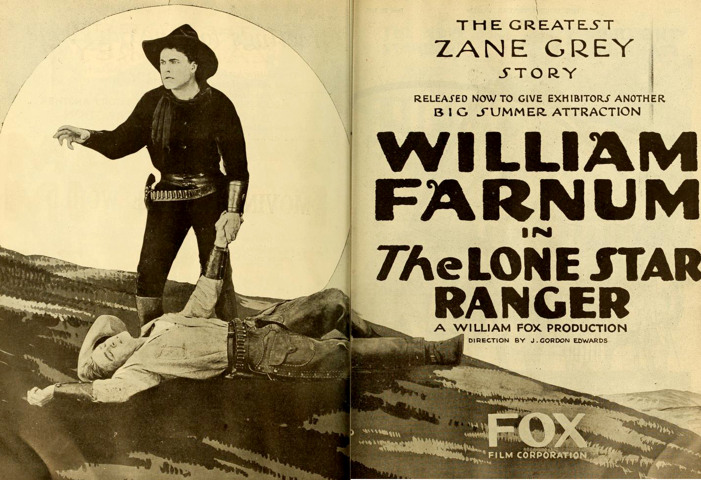 Advertisement in Moving Picture World, June 1919 for the American western film The Lone Star Ranger (1919).